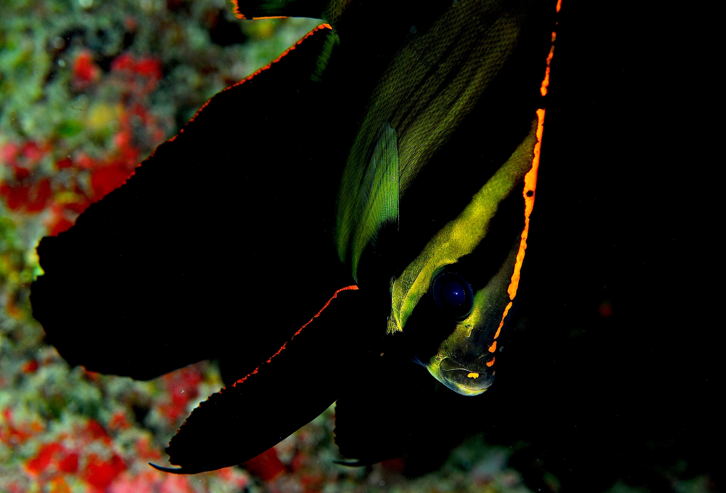 'Baby Batfish' On Black